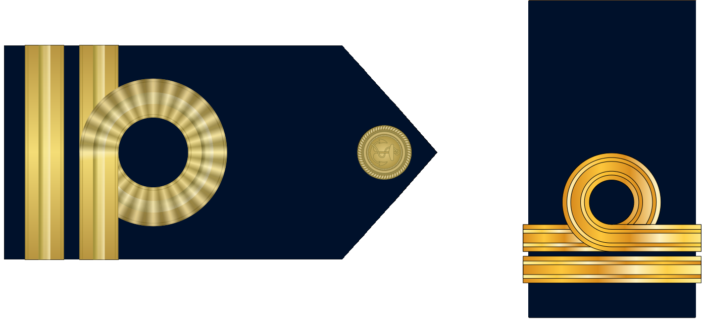 Rank insignia of a first lieutenant of the Argentine Navy.